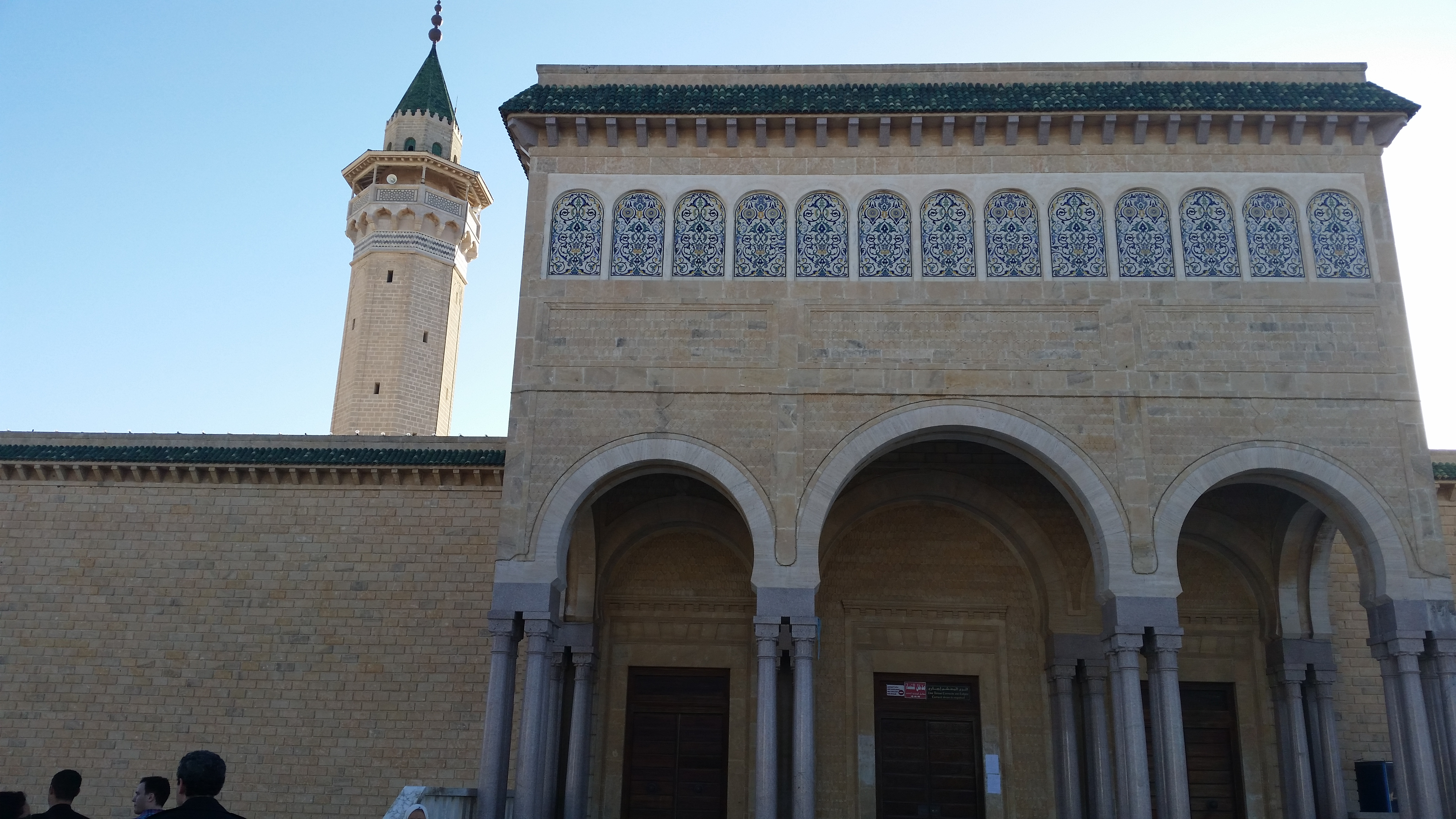 Bourguiba Mosque